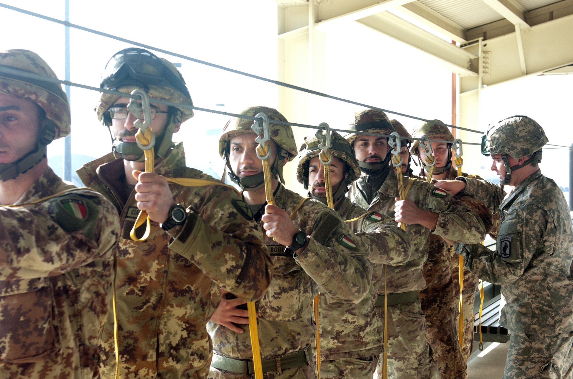 Italian army paratroopers from Folgore Brigade’s 8th Parachute Assault Engineer Regiment, joined by thier US Army allies from the 1st Battalion, 503rd Infantry Regiment, 173rd Airborne Brigade conduct sustained airborne training in Aviano, Italy, Jan. 14 to begin their Emergency Deployment Readiness Exercise, referred to as EDRE. EDRE is a no notice, rapid deployment exercise designed to test the brigade's ability to alert, marshal and deploy, while serving as the US Army's Contingency Response Force in Europe. (U.S Army photo by Staff Sgt. Opal Vaughn)